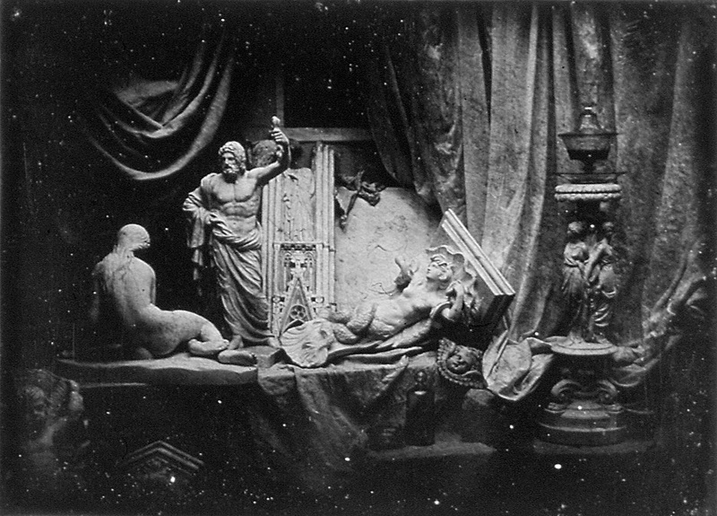 Still life with statue of Jupiter Tonans, whole-plate daguerreotype by Louis Jacques Mandé Daguerre. One of the specimens exhibited to the French Chamber of Deputies in July 1839 when it was considering the award of pensions to Daguerre and Isidore Niépce in exchange for the rights to Daguerre's still-secret process. Later in 1839 Daguerre made a gift of it to the Austrian Chancellor Metternich.